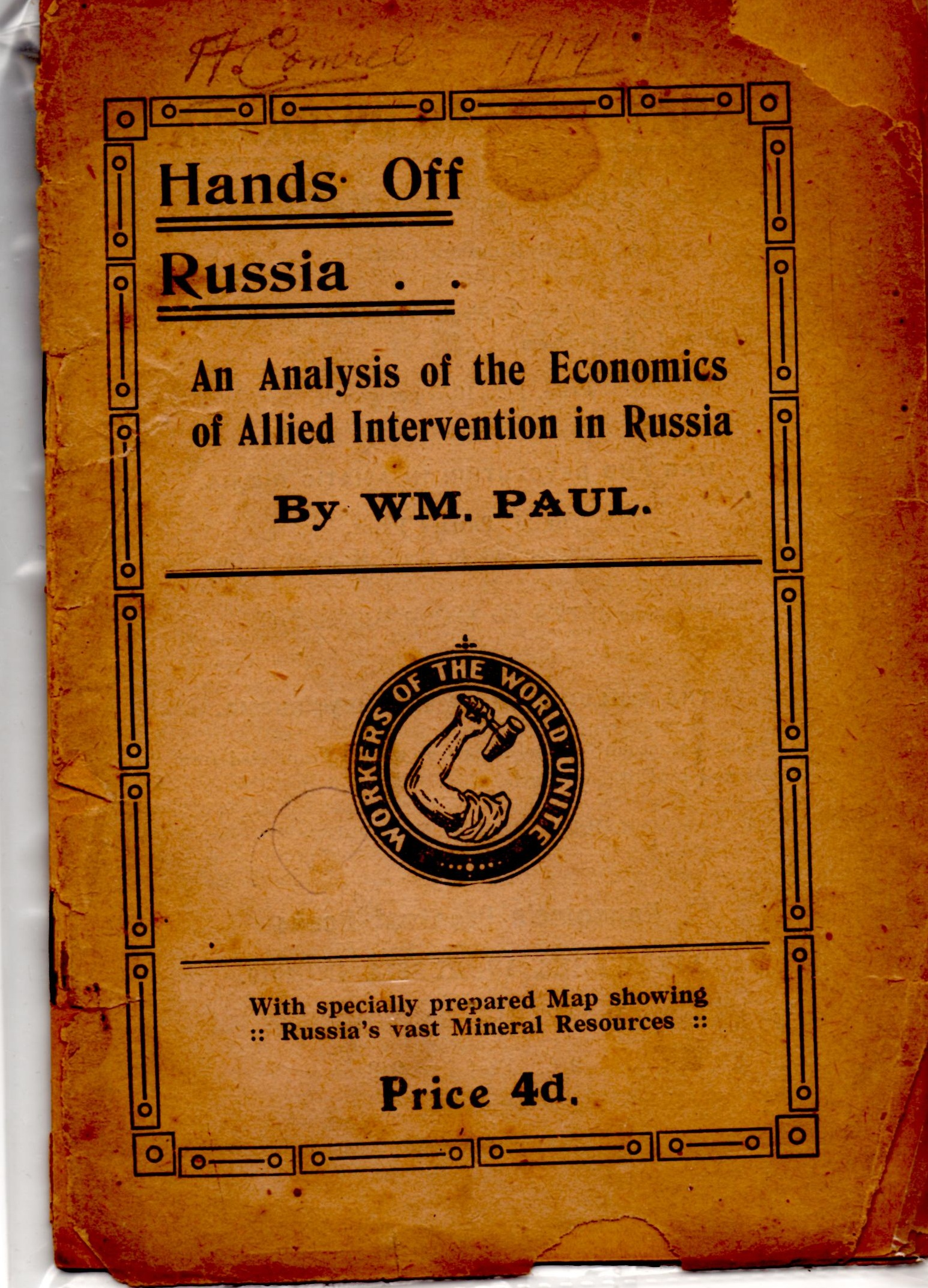 Hands Off Russia, pamphlet by William Paul, Socialist Labour Press, Renfrew, 1919